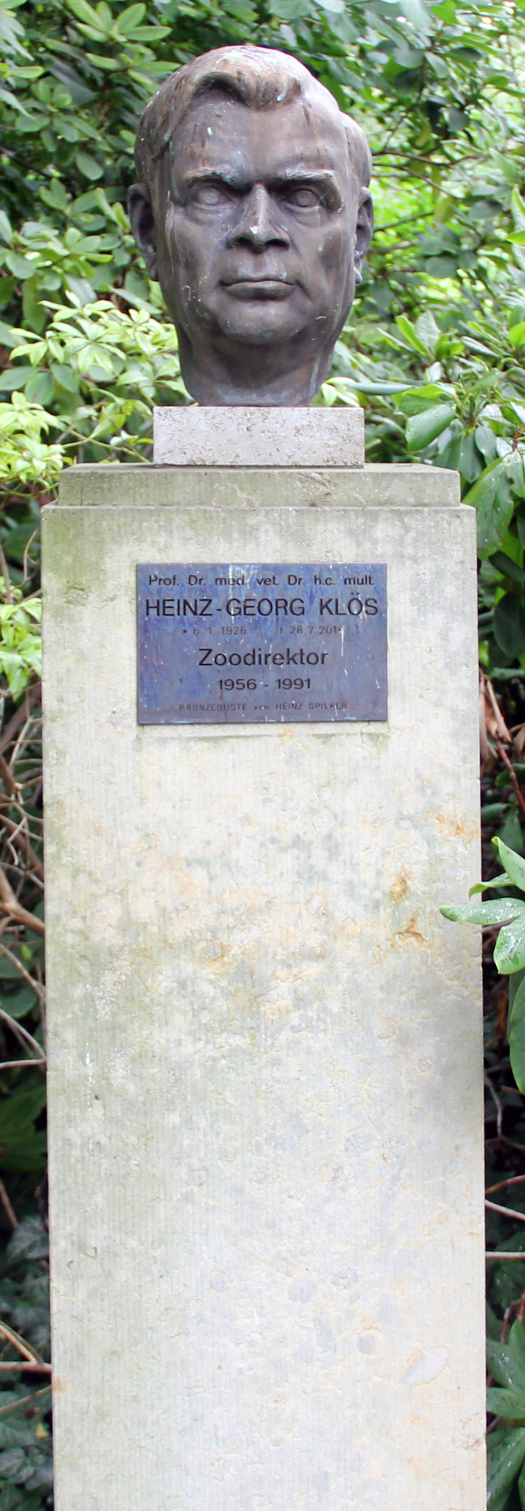 Bust, Heinz-Georg Klös, Hardenbergplatz 8, Berlin-Tiergarten, Germany